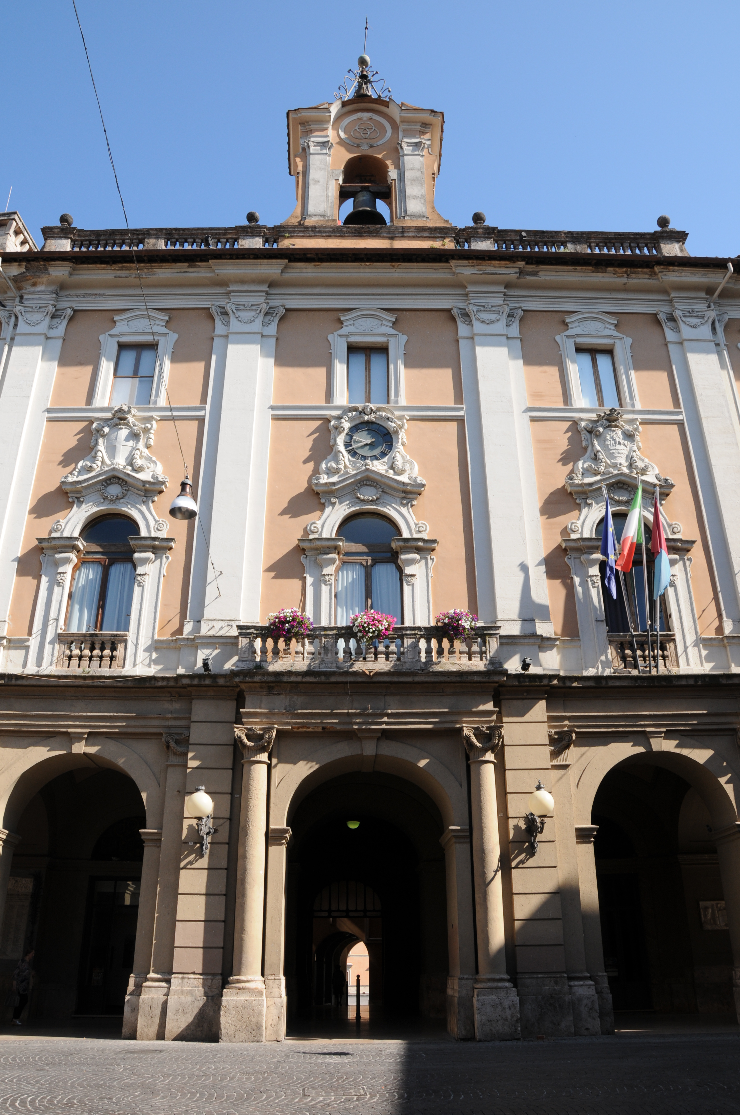 Palazzo Comunale's facade - Rieti, Lazio, Italy